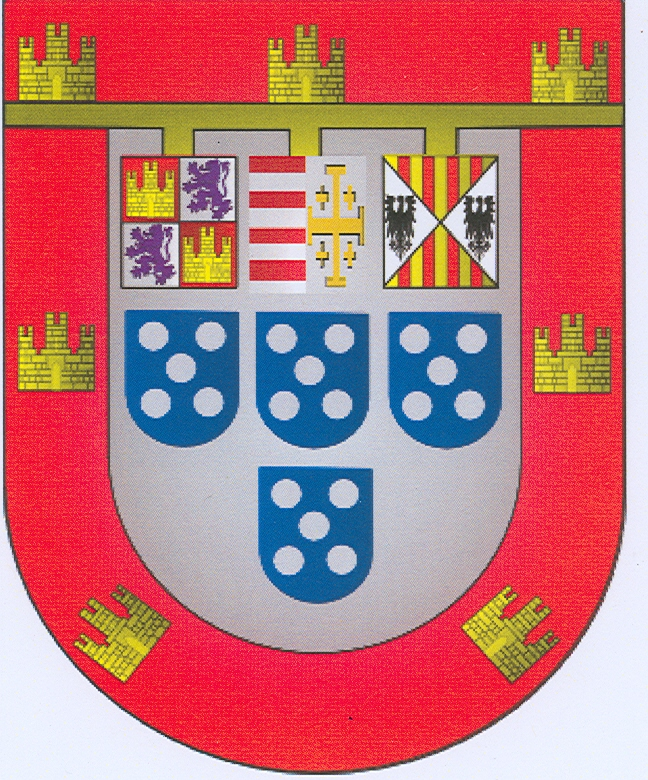 Coat of Arms of Infante Duarte I, 4th Duke of Guimarães